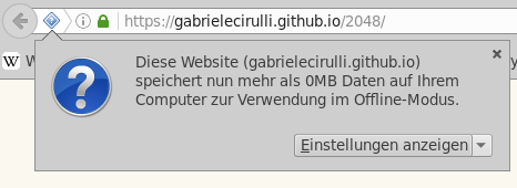 Panel shown to ask for permission to use application cache